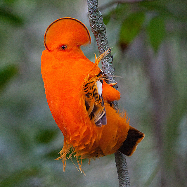 Rupicola rupicola (Linnaeus, 1766) Guianan Cock-of-the-rock Presidente Figueiredo - AM